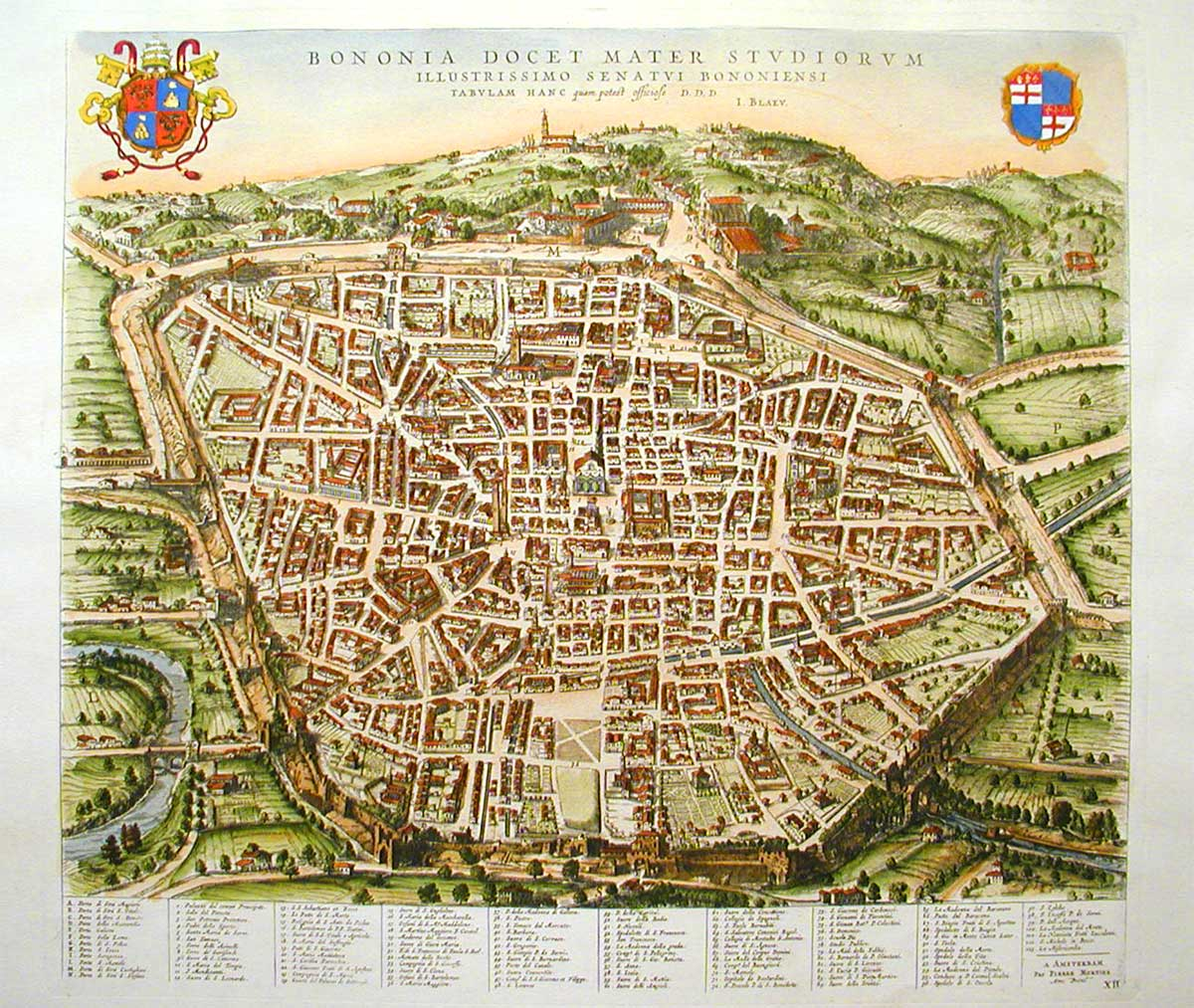 Maps of Bologna